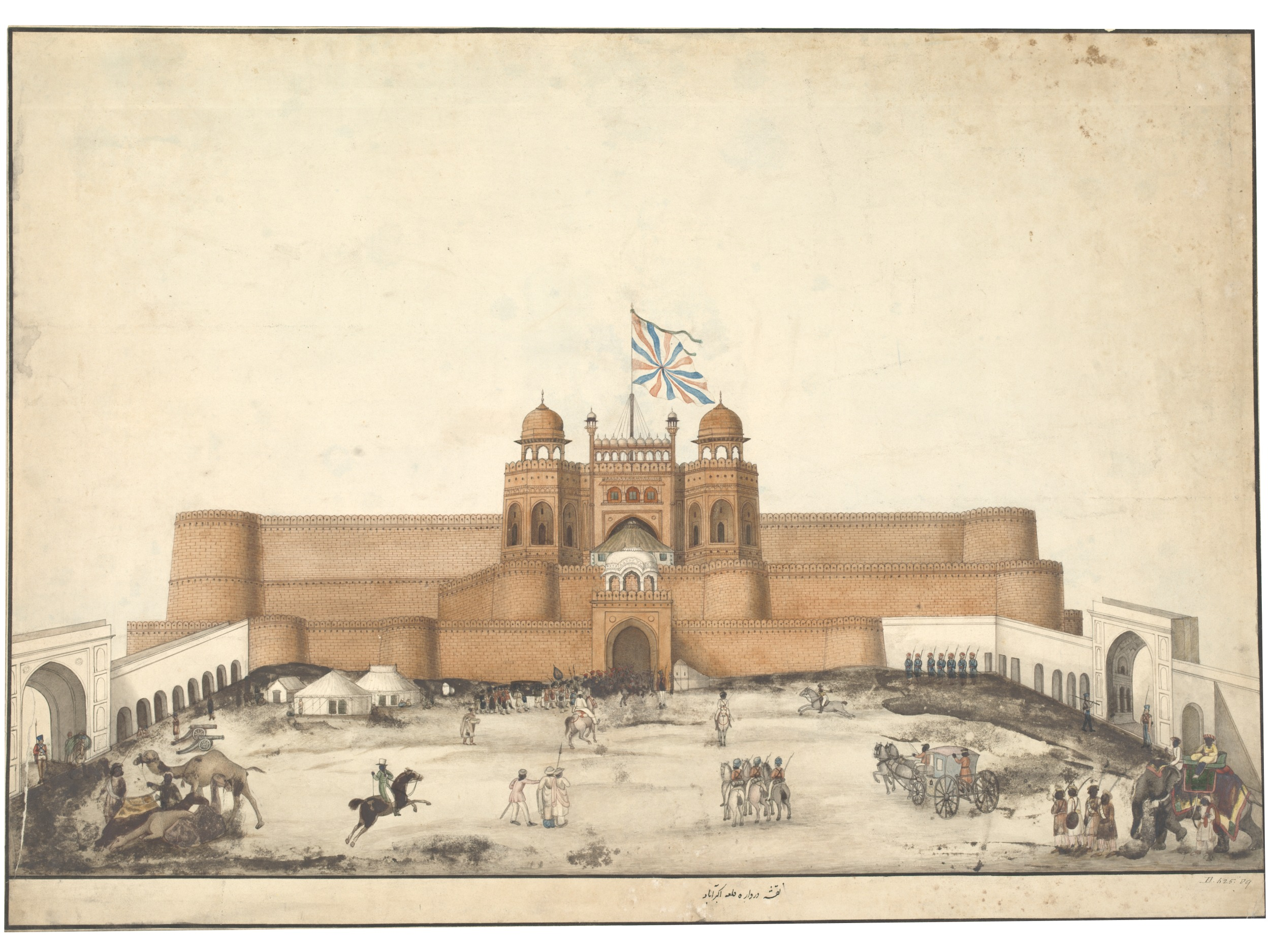 The Red fort, Agra, flying a Union Flag; a procession entering with a palanquin. In the foreground, camels, a carriage with two horses, an elephant and a number of sepoys and mounted horsemen.